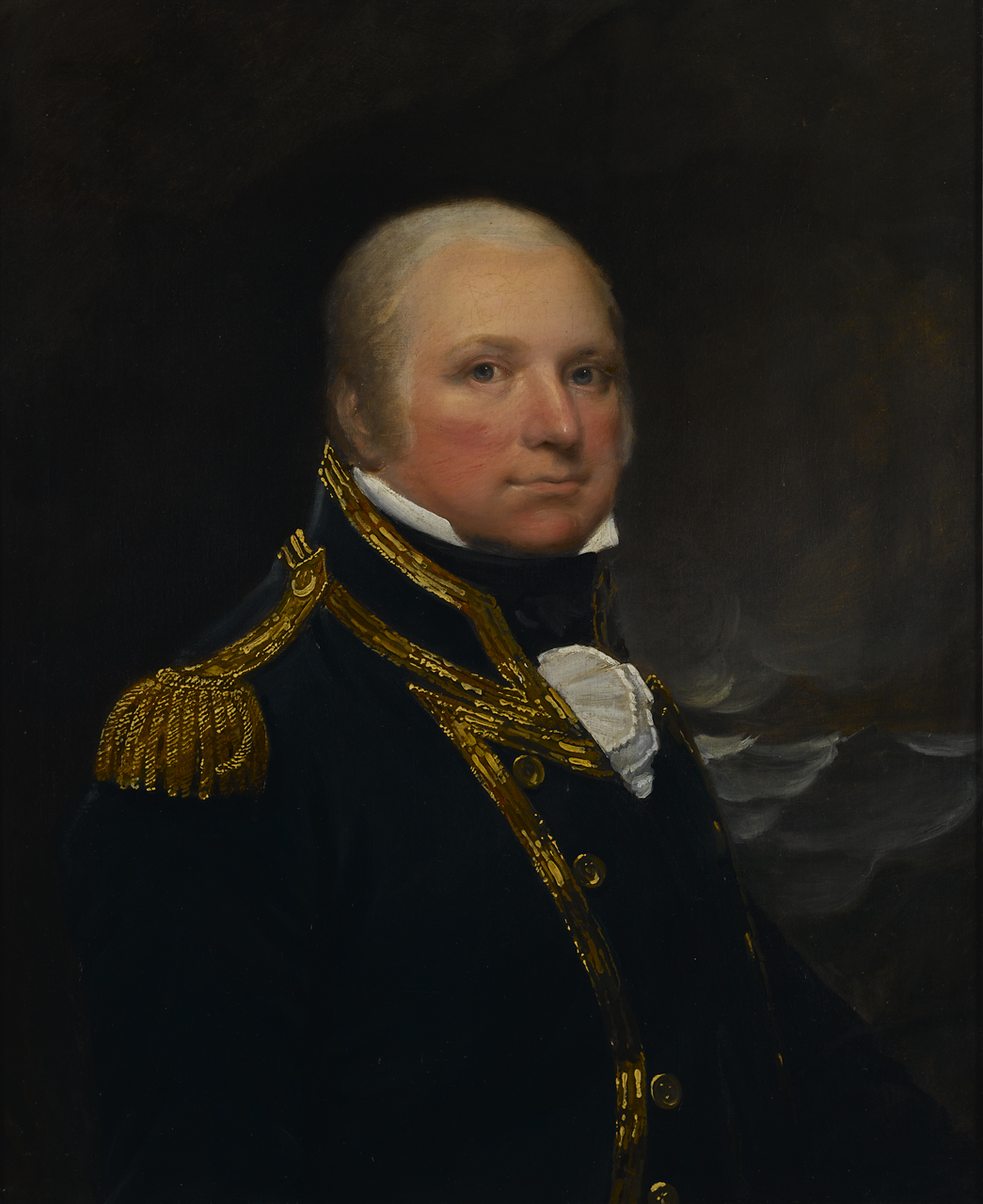 From the museum's website A half-length portrait of Captain John Cooke wearing a captain's full-dress uniform (over three years), 1795-1812; sea and sky form the background. He was captain of the 'Nymphe' when, together with the 'San Fiorenzo', they captured the French frigates, 'Résistance' and 'Constance' off Brest in March 1797. He was killed at Trafalgar when commanding the 'Bellerophon', being one of two captains to die there: the other was George Duff of the 'Mars'. The 'Bellerophon' was engaged in close action with the French 'L'Aigle'. At 11 minutes past one, while reloading his pistols for the third time, Cooke was shot in the chest and fell to the deck. A 14-year-old midshipman, George Pearson, rushed forward to lend assistance but he was felled by a splinter. Mortally wounded, Cooke's last words to his quartermaster were 'Let me lay one minute'.